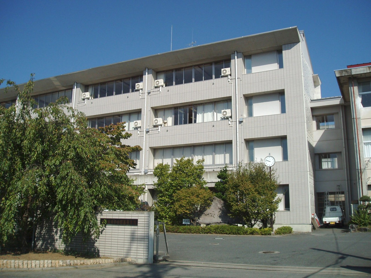 Main entrance to Nagano Yoshida High School located in Nagano, Nagano, Japan.